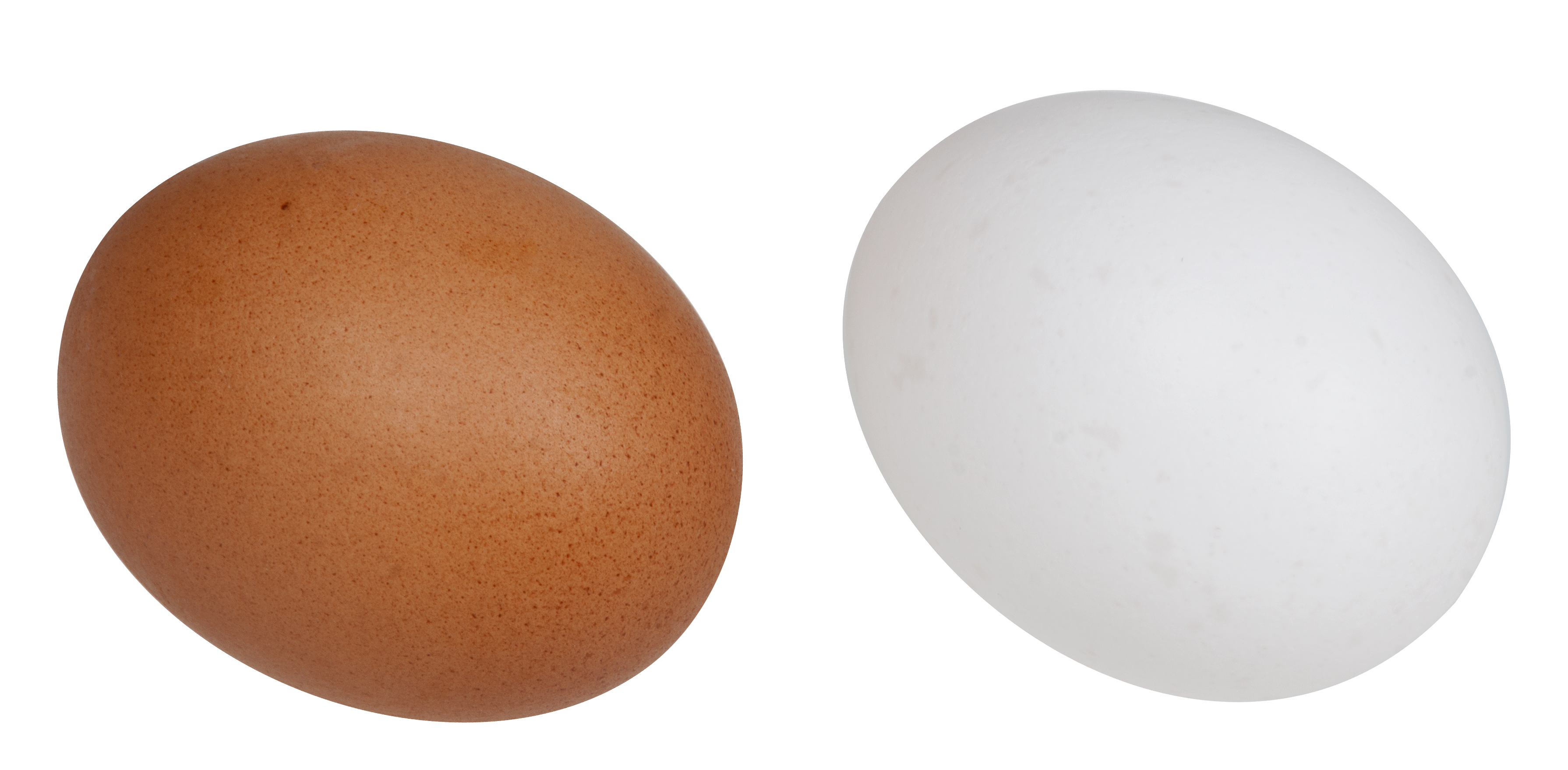 A brown and white chicken egg.